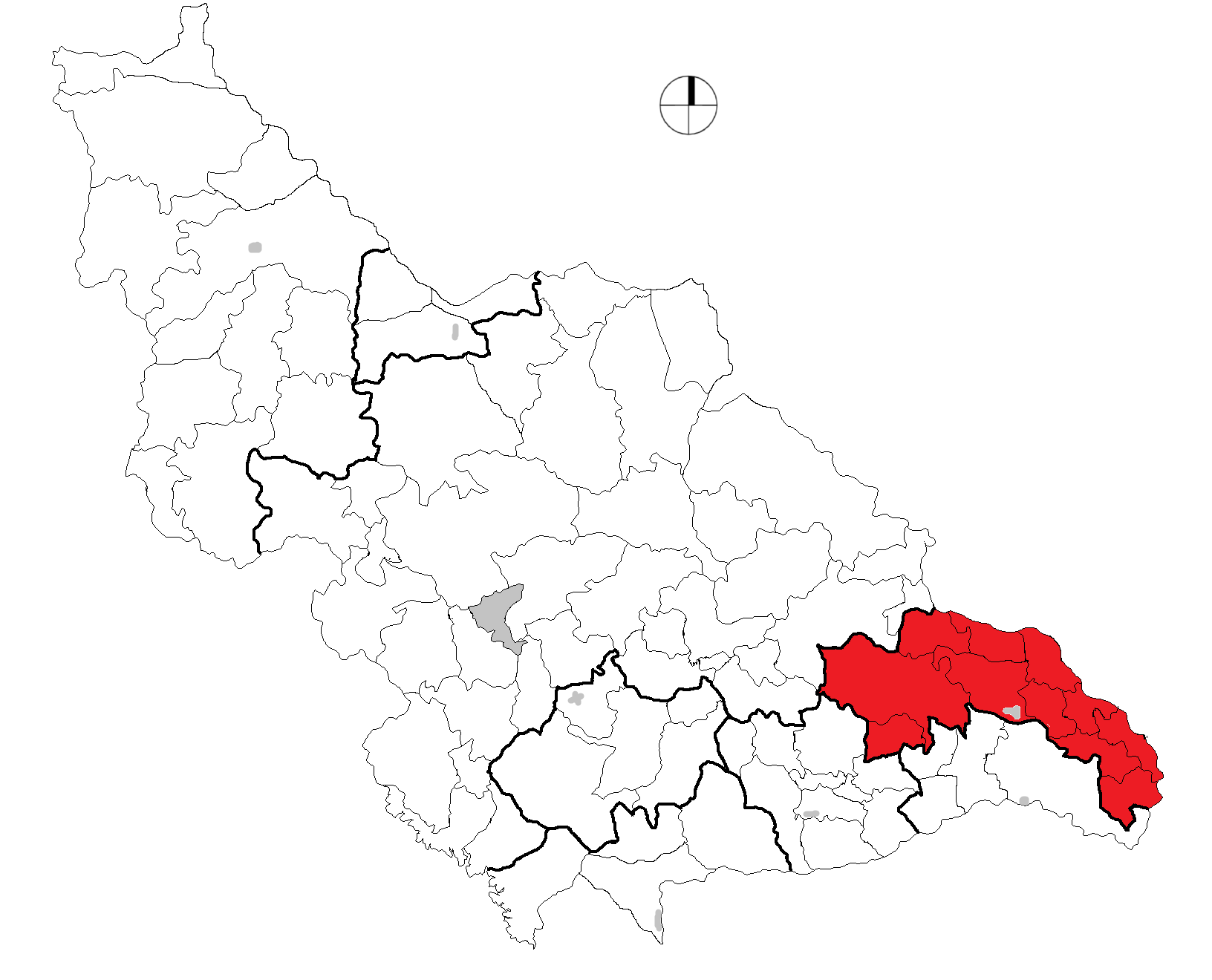 Mapa de San Pablo en Santa Rosa de Osos